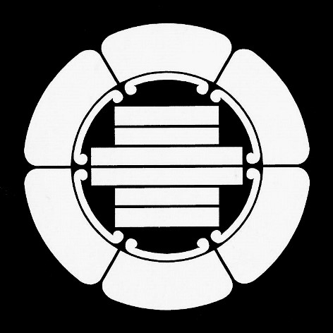 Crest of Sagara clan